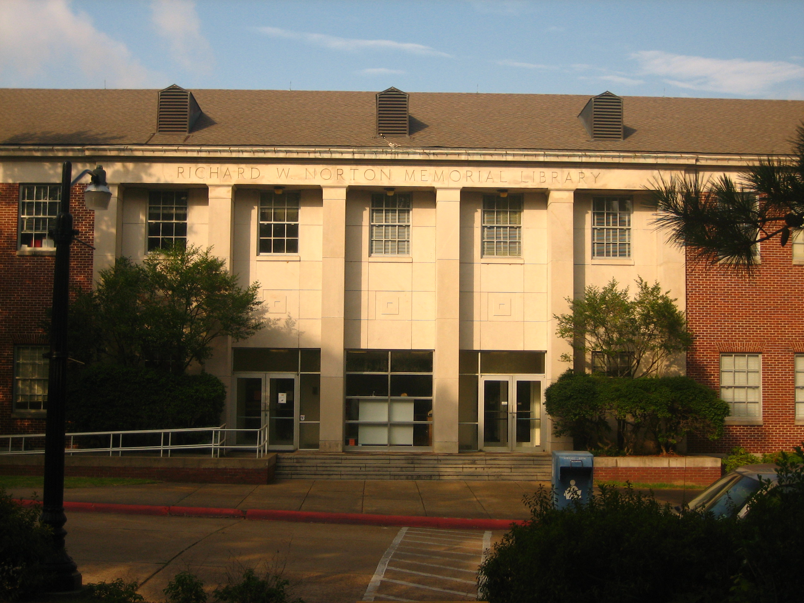 I took photo on Aug. 1, 2008.Billy Hathorn (talk) 03:32, 20 August 2008 (UTC)